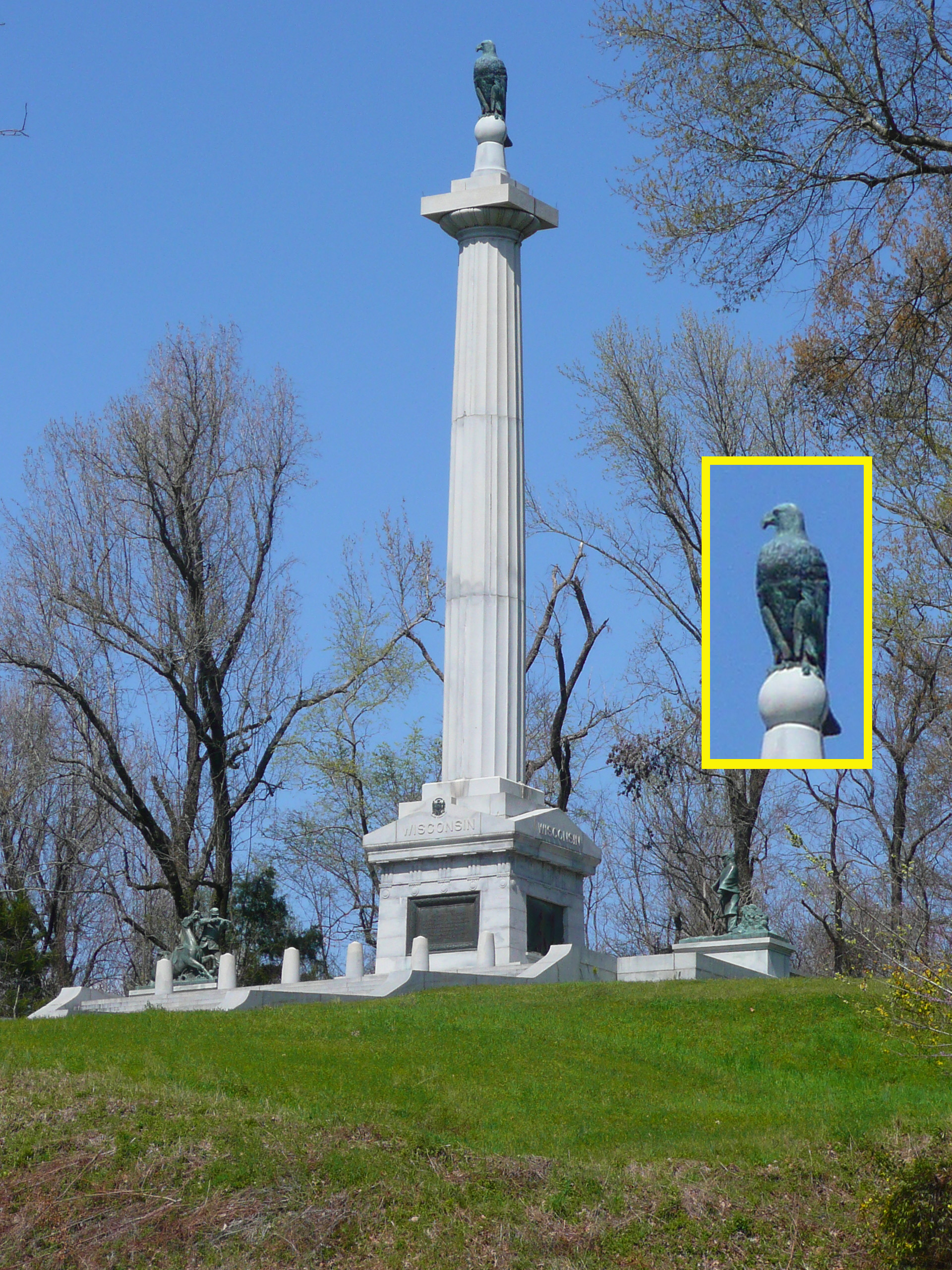 Vicksburg National Military Park with closup of memorial